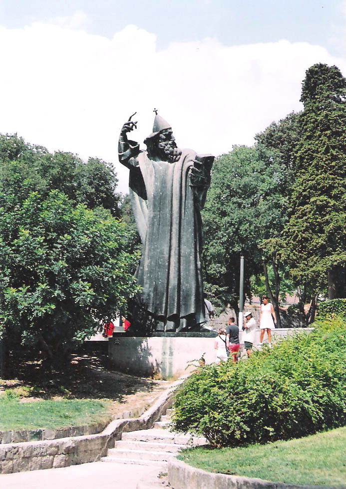 Statue of Grgur Ninski (Gregory of Nin) by Ivan Meštrović in Split, Croatia (photograph is scanned)